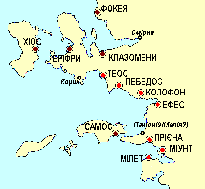 Cities - members of Ionian League (ukrainian)